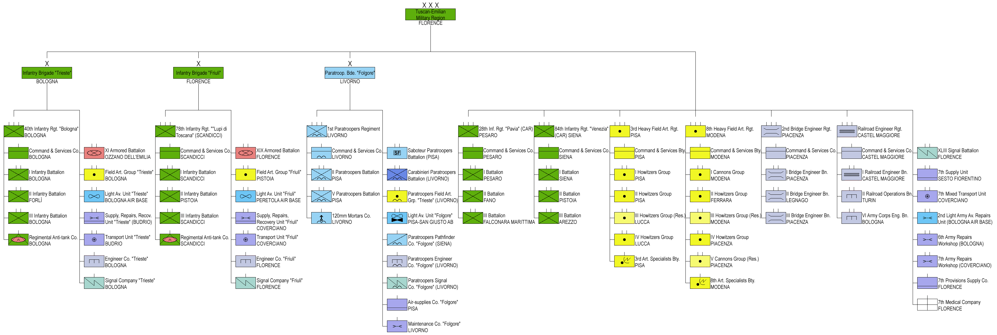 Structure of the Italian Army Tuscan-Emilian Military Region in 1974